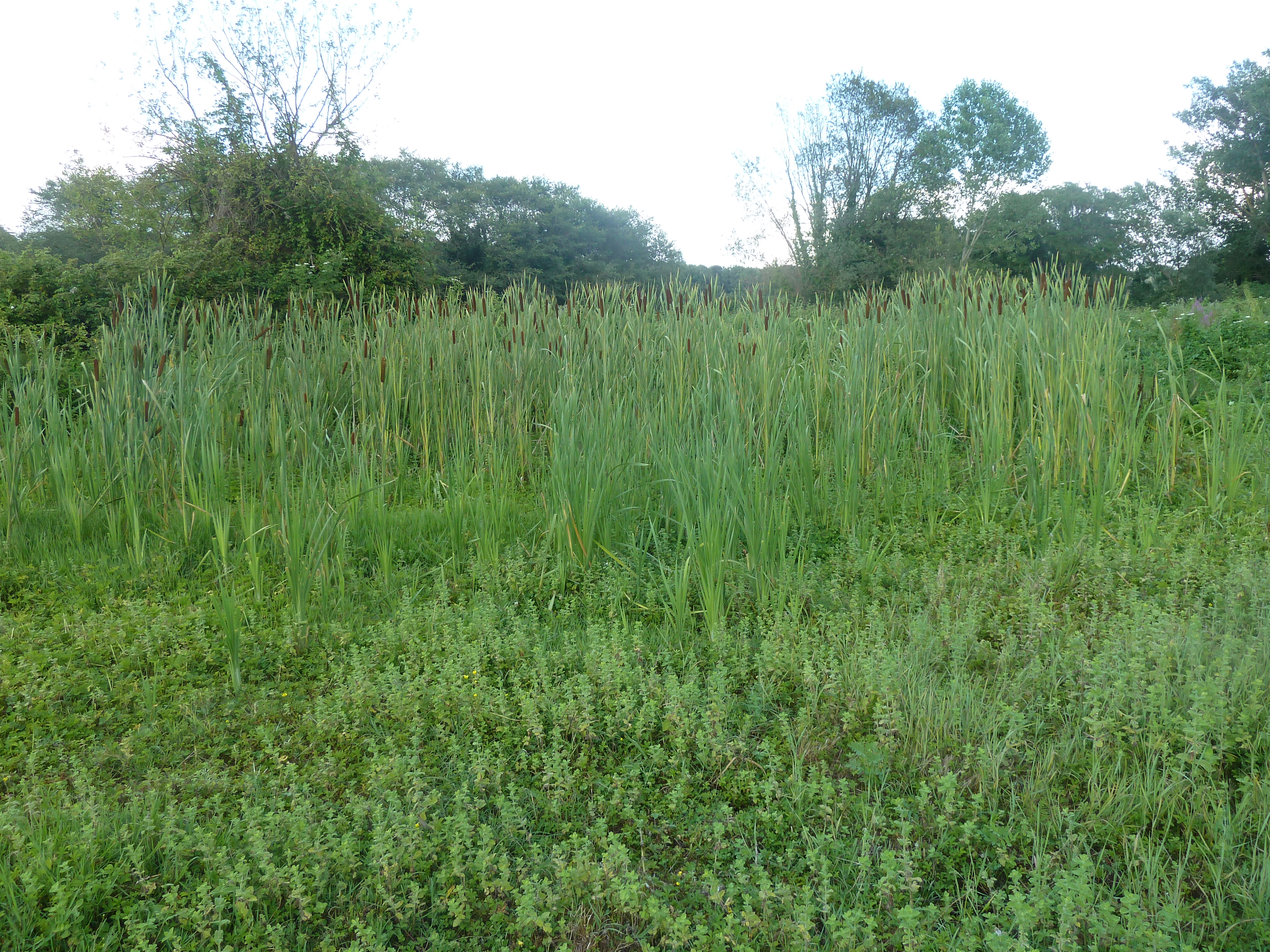 Flora. Parco della Caffarella, Rome, Italy. July - Typha latifolia